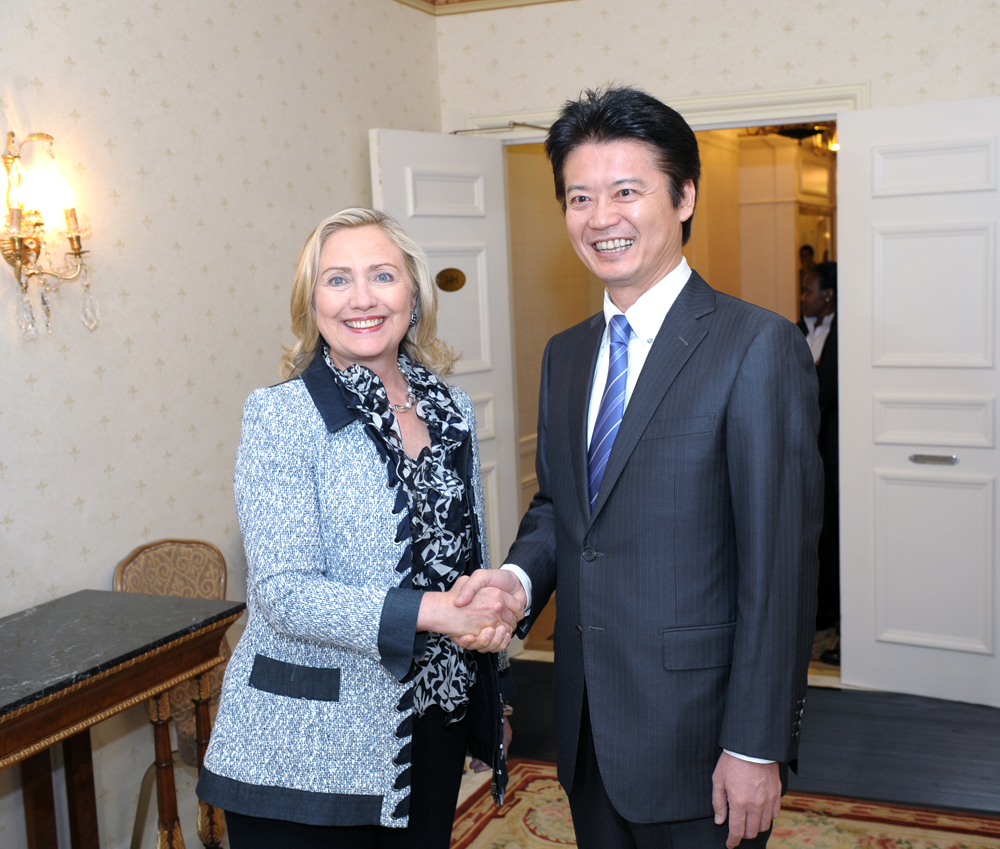 Kōichirō Gemba, Minister for Foreign Affairs, shaked hands with Hillary Rodham Clinton, Secretary of State, in New York City, New York State on September 19, 2011.